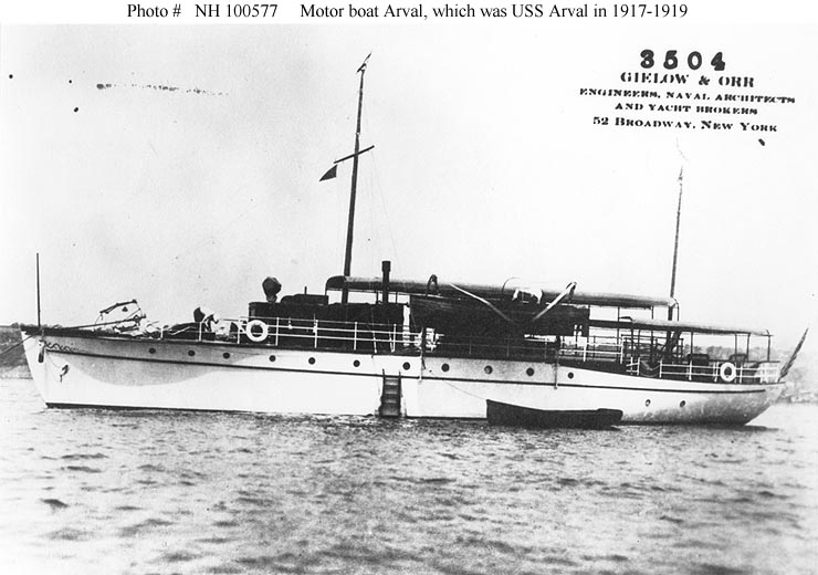 The private motorboat Arval sometime prior to her United States Navy service as the patrol vessel